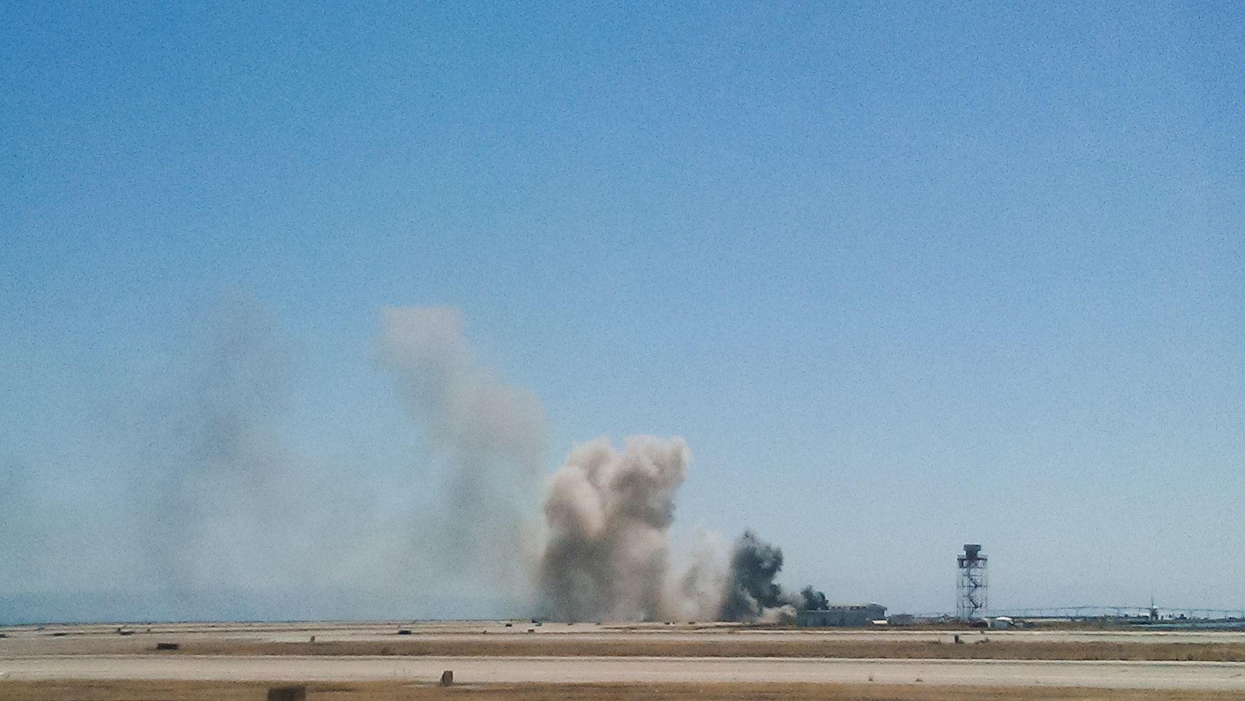 Asiana Airlines flight 214 crash at SFO. Taken on board a plane at Terminal 1.